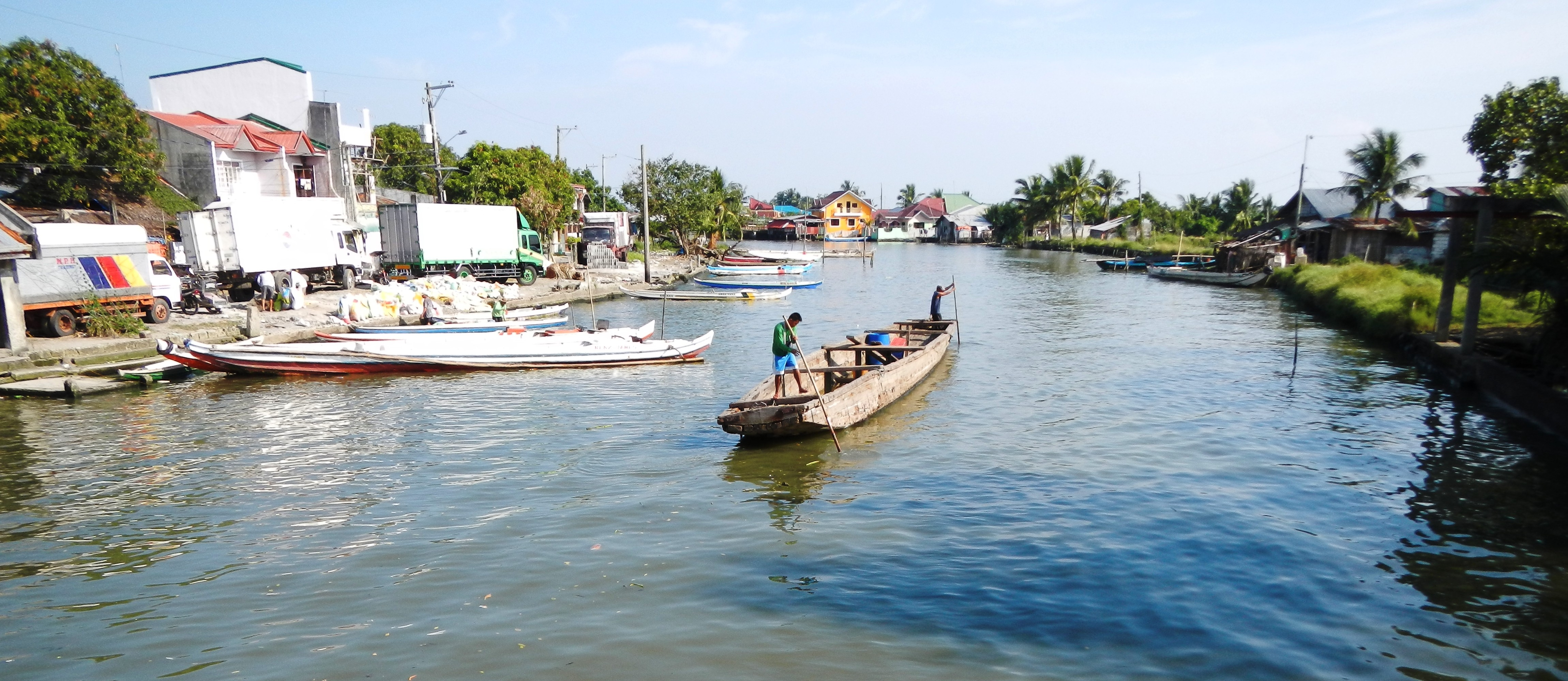 Paombong, Bulacan[1]San Jose Fishport located at Sitio Wawa cradles the motor boats or "bangka" which serves as the major transportation going to the three barangays near the Manila Bay, namely, Sta. Cruz, Masukol and Binakod.